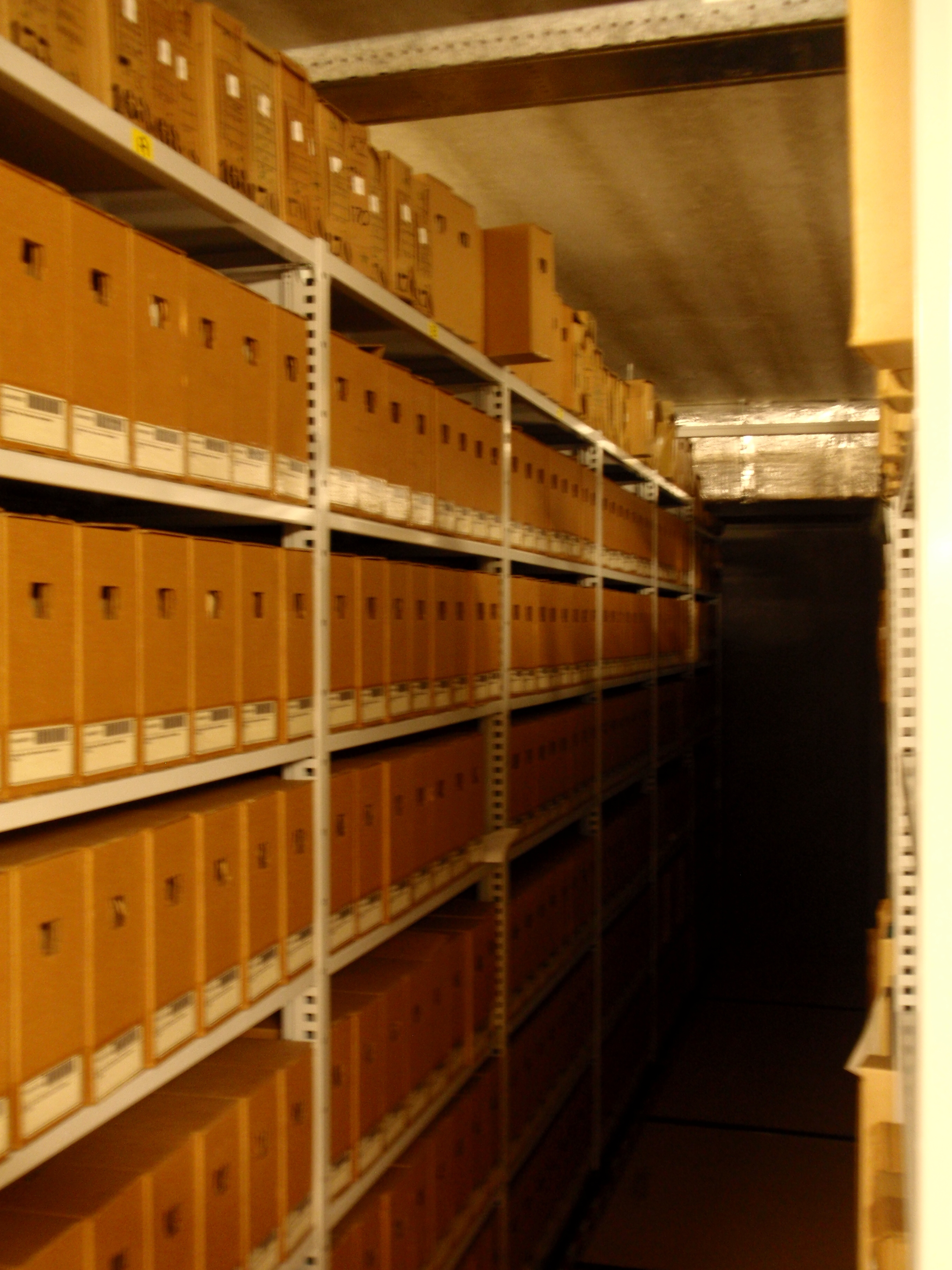 Archive boxes in the archive of the Netherlands Architecture Institute in Rotterdam